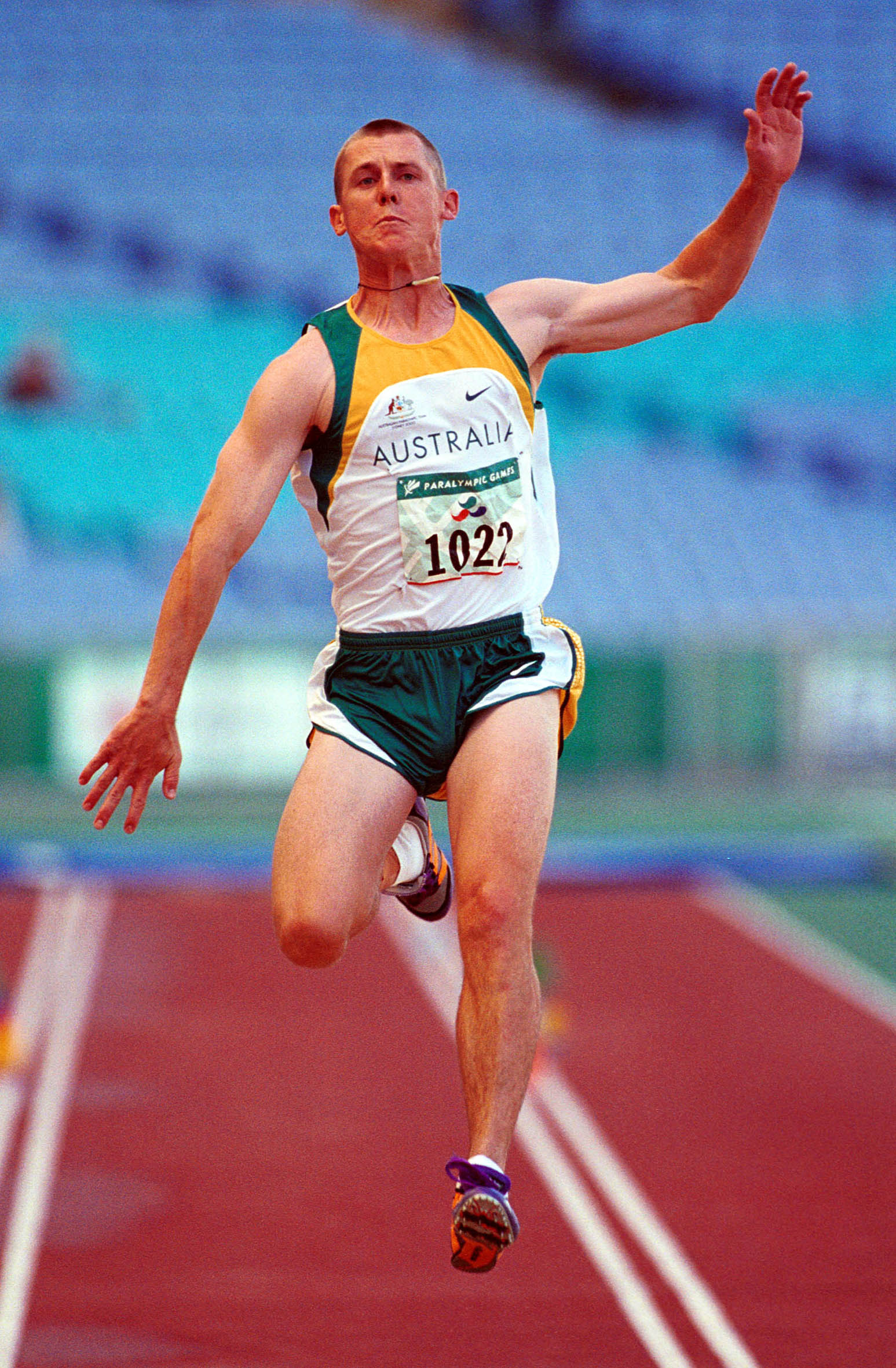 Action shot of Australian pentathlete Anthony Biddle during pentathlon competition at the 2000 Sydney Paralympic Games, Day 06